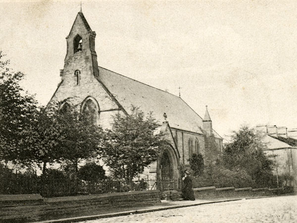 St James the Less Church, Spring Bank, New Mills, Derbyshire.Built 1880 and designed by William Swinden Barber. It is now an arts centre.